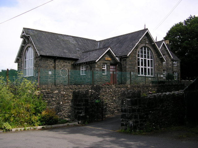 Ysgol Gynradd Brithdir. Brithdir Primary School